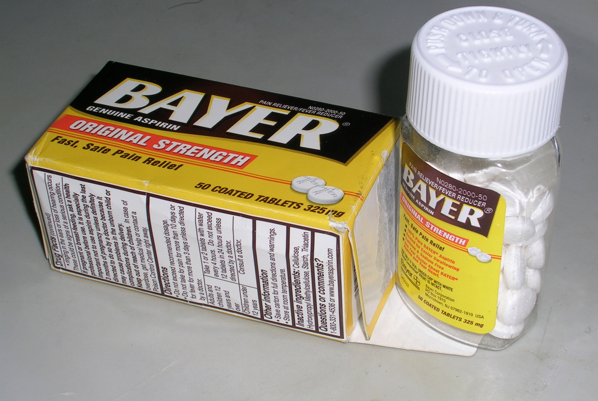 A bottle of Bayer brand coated aspirin tablets with a child-resistant cap bearing the instruction "push down and turn to open".